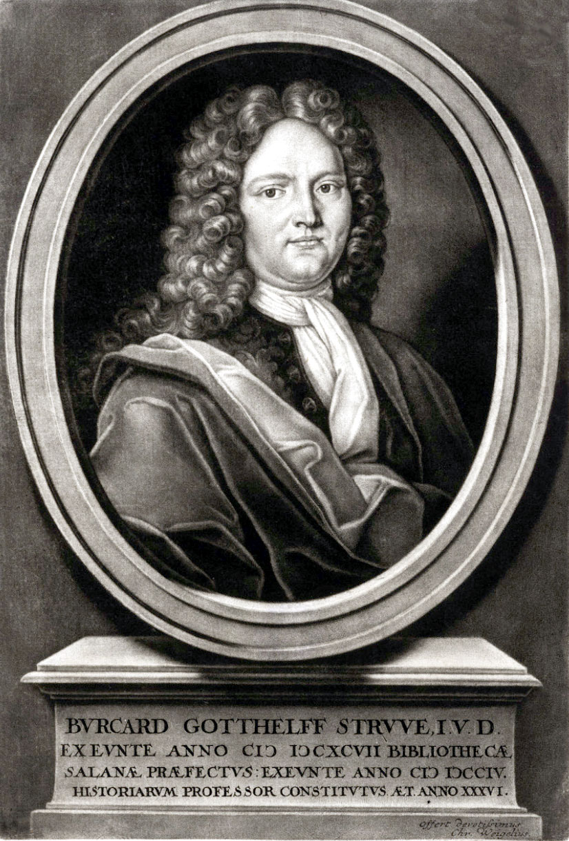 Burkhard Gotthelf Struve (1671-1738) German Jurist and Historian